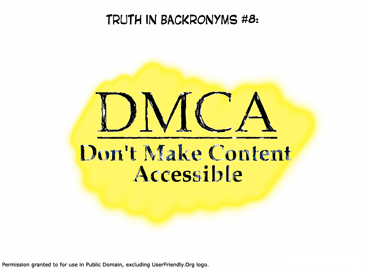 Example for sunday edition of User Friendly web comic